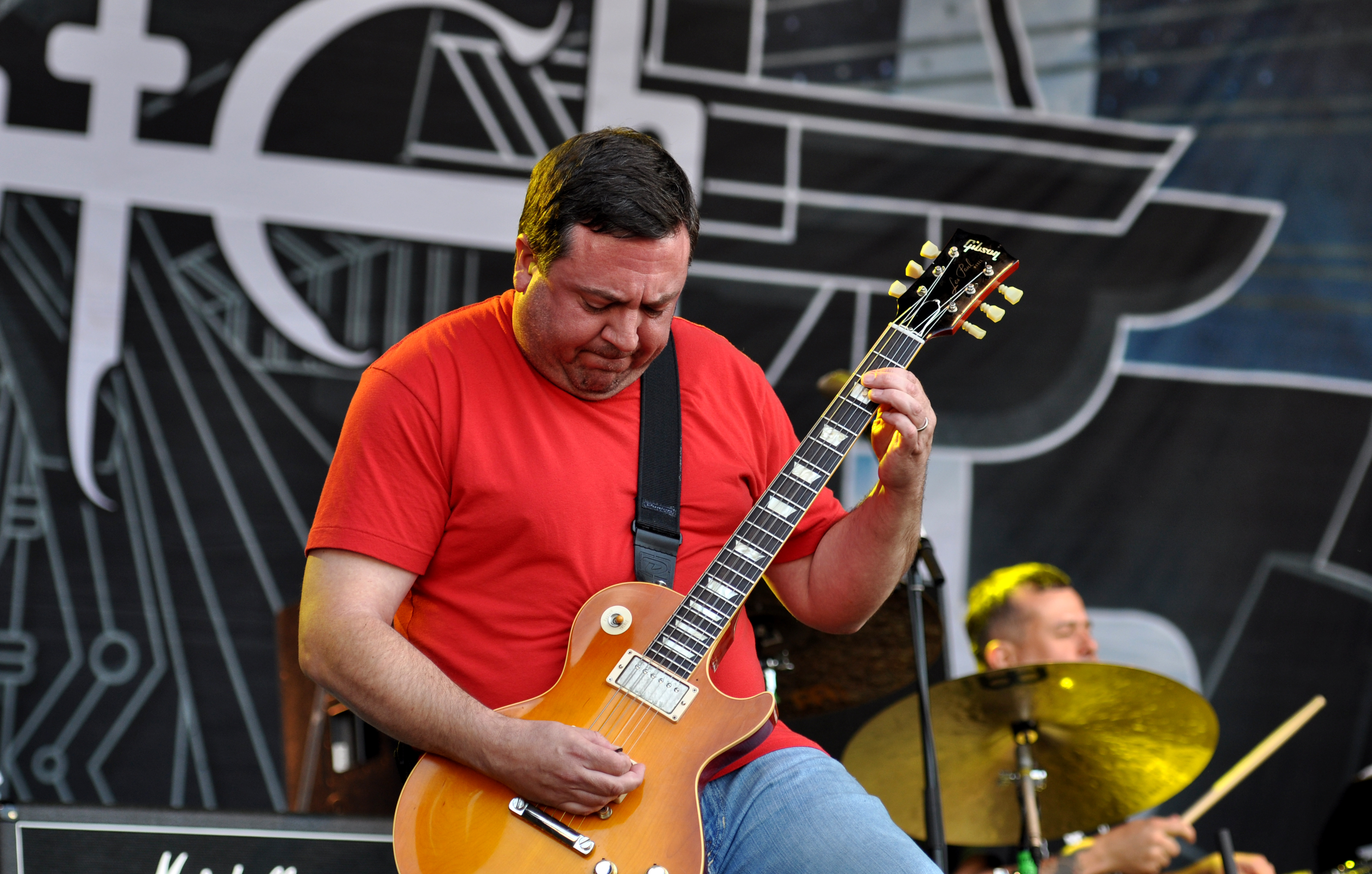 US stoner rock band Clutch at Rock am Ring 2013